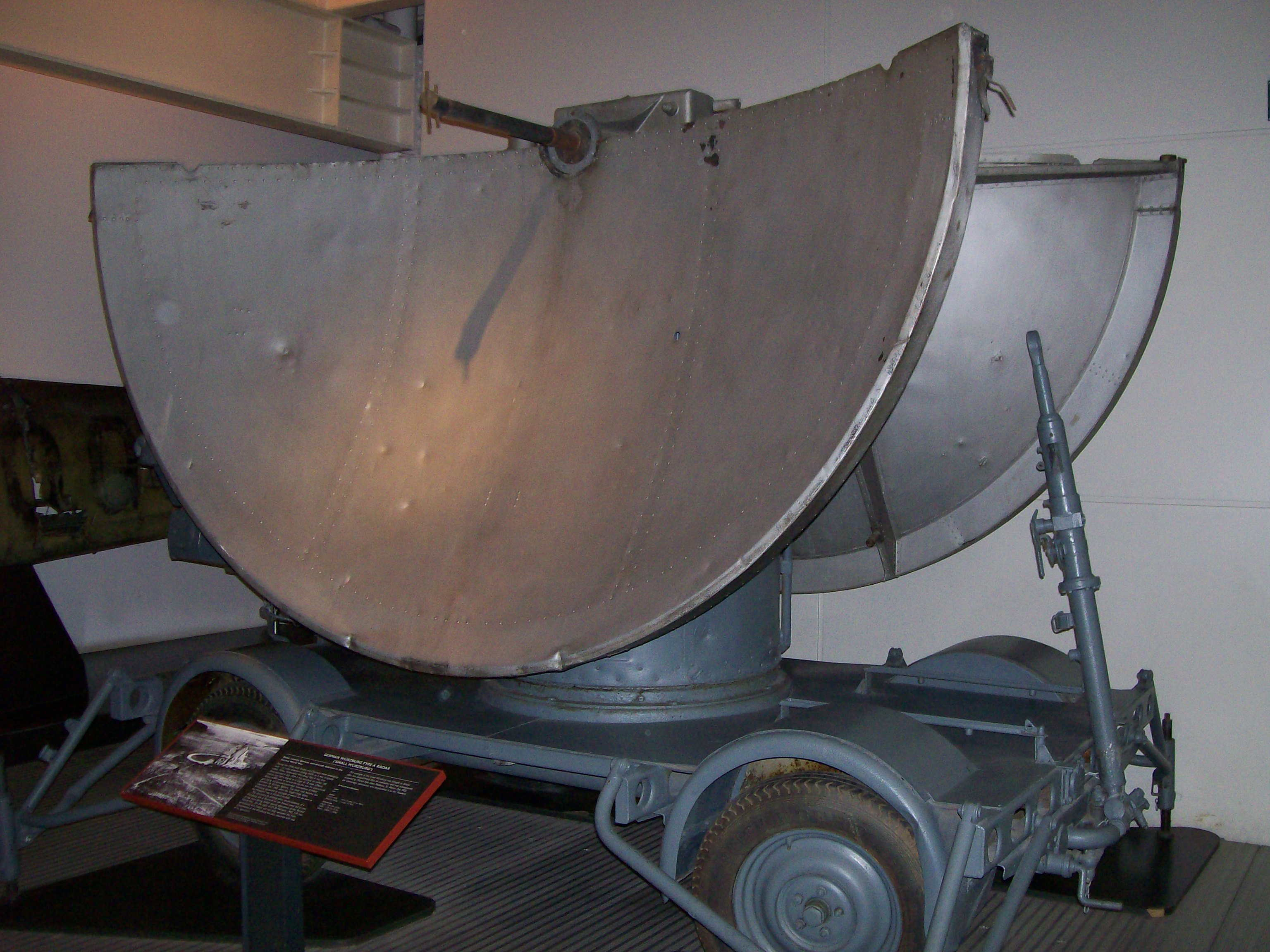 Würzburg mobile radar (WWII), Imperial War Museum, London, March 2007